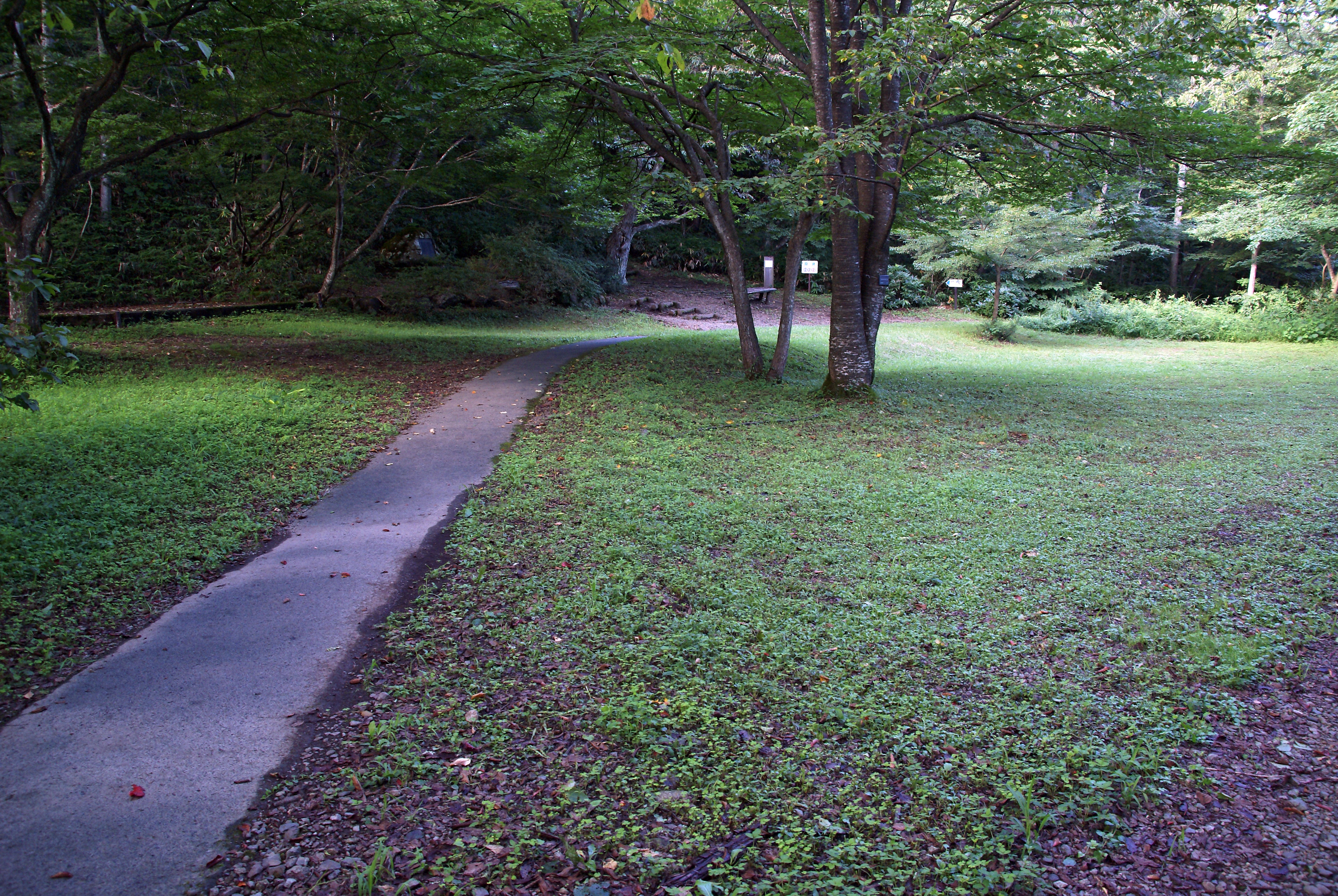 Takamura Sanso (lodge) in Hanamaki, Iwate prefecture, Japan